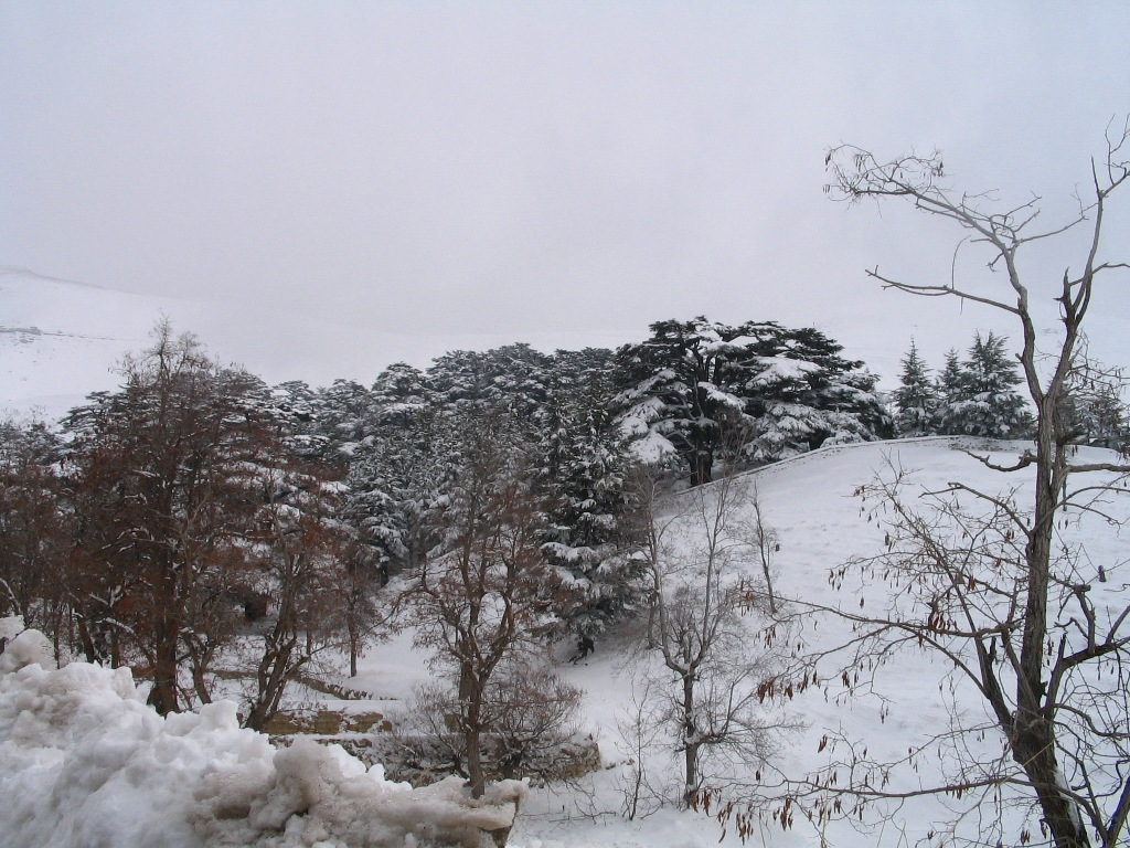 Cedars in Lebanon